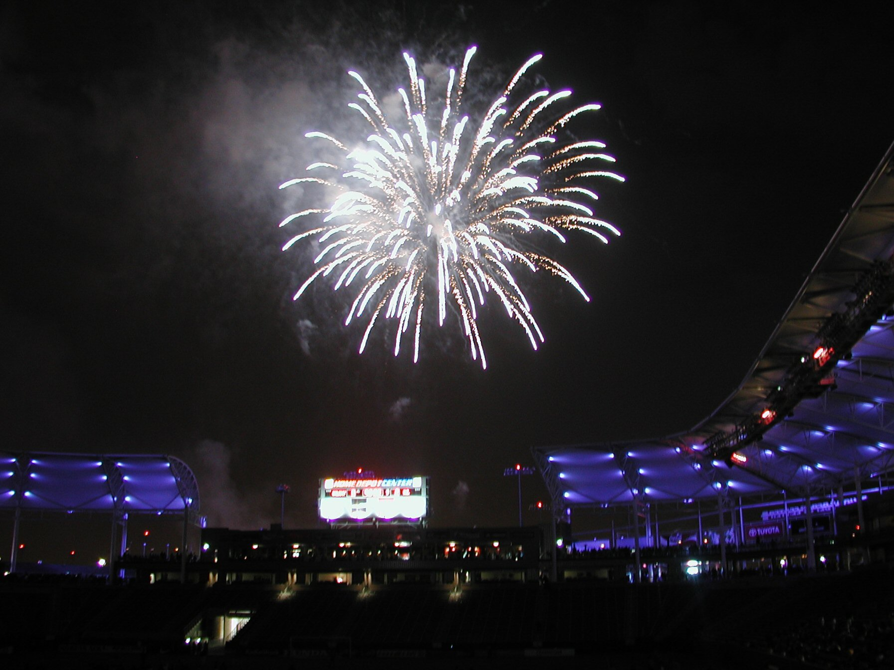 Home Depot center - 2004 season opening post-game fireworks